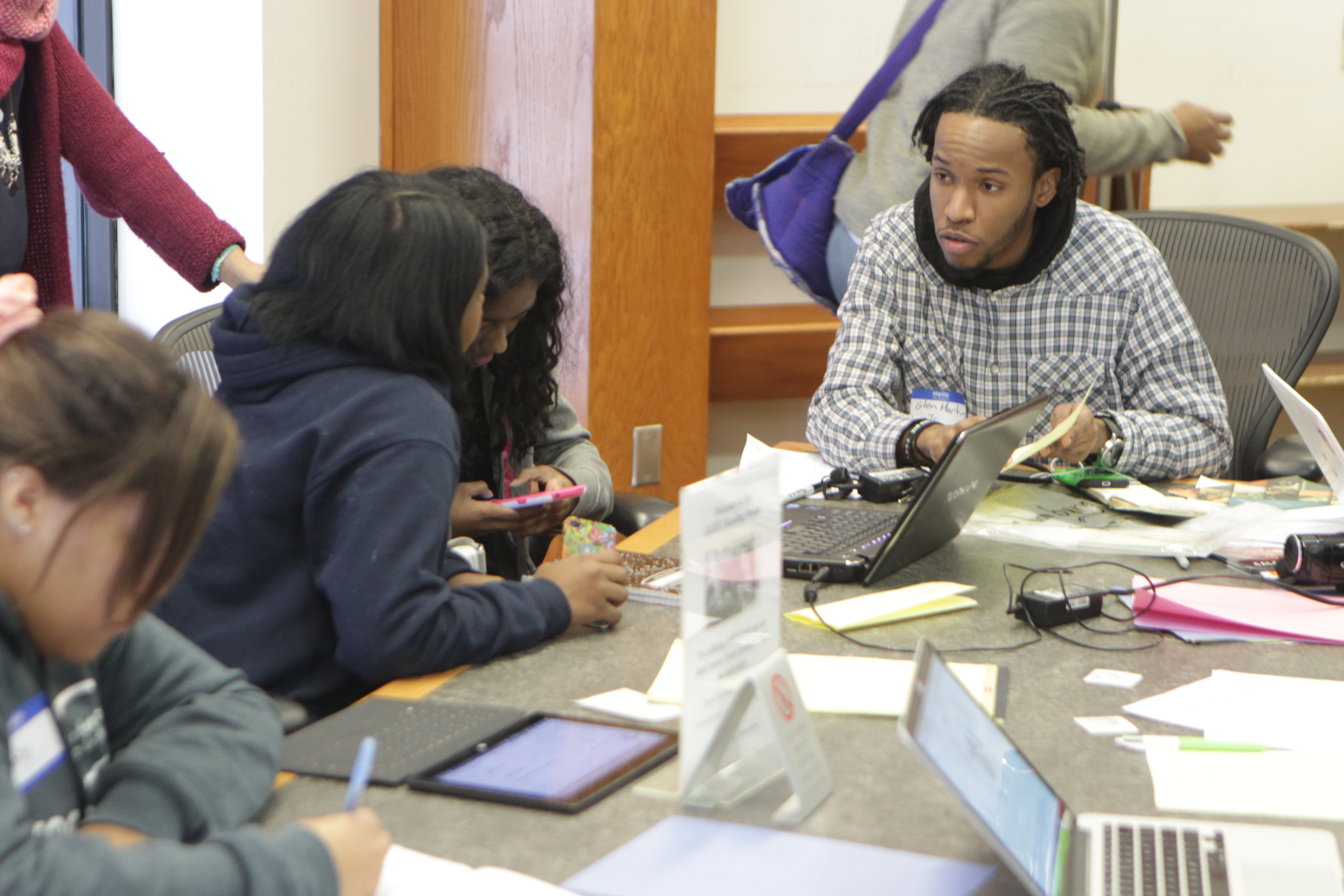 BlackLivesMatter Edit-a-thon at the NYPL Schomburg Center for Research in Black Culture with METRO Library Council, Free Harlem Wifi, West Harlem Art Fund, Wikimedia NYC February 7, 2015